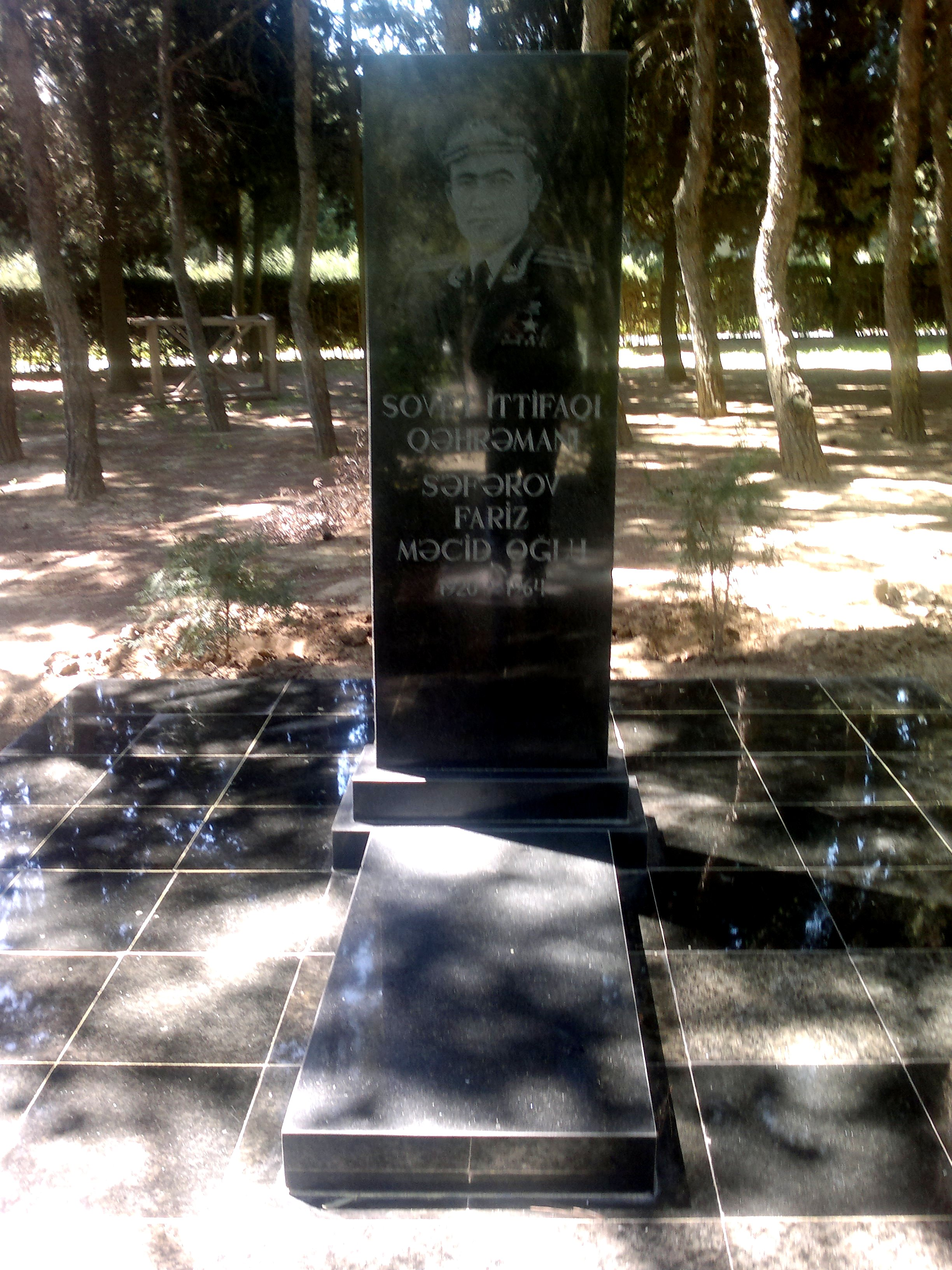 Burial of Fariz Safarov at Alley of Honor (Azerbaijan)